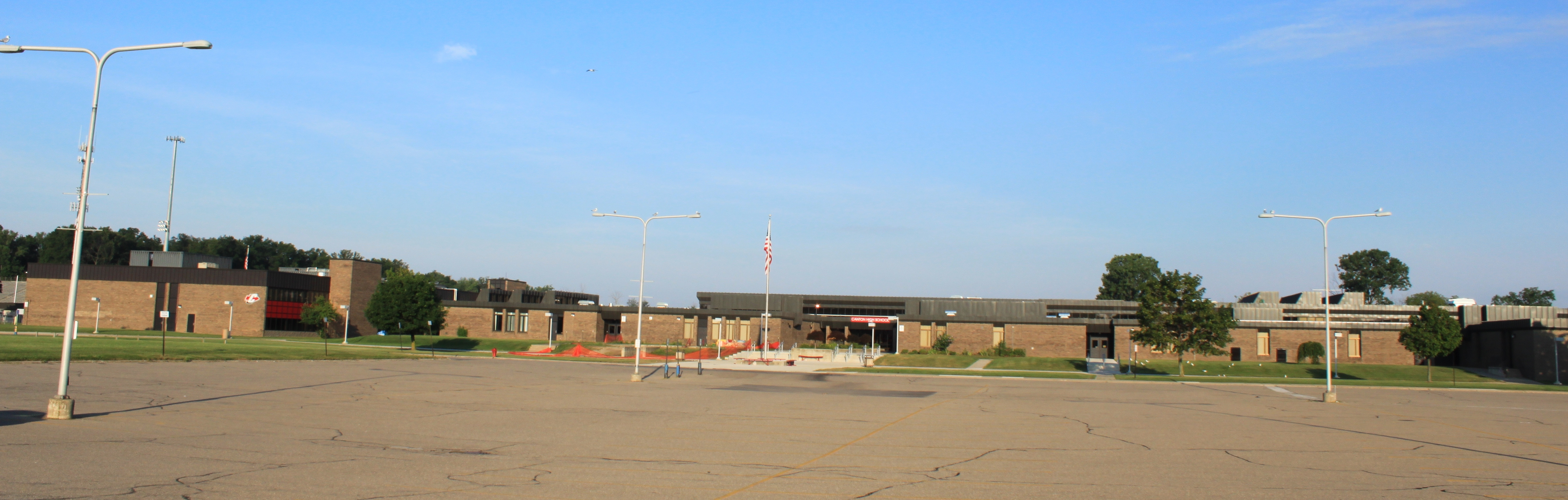 Canton Charter Township Michigan, Canton High School, 8415 Canton Center Road, part of the 'Plymouth-Canton Educational Park'